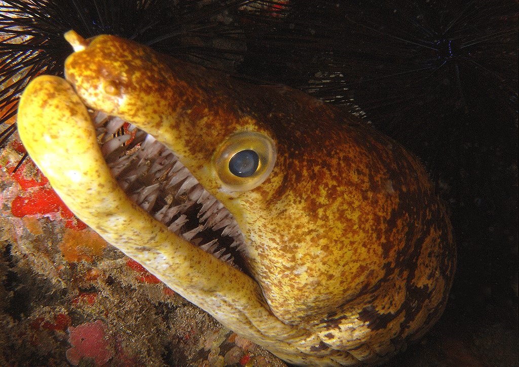 Enchelycore anatina - Fangtooth moray / Picopato / Murène tigrée, Tenerife.